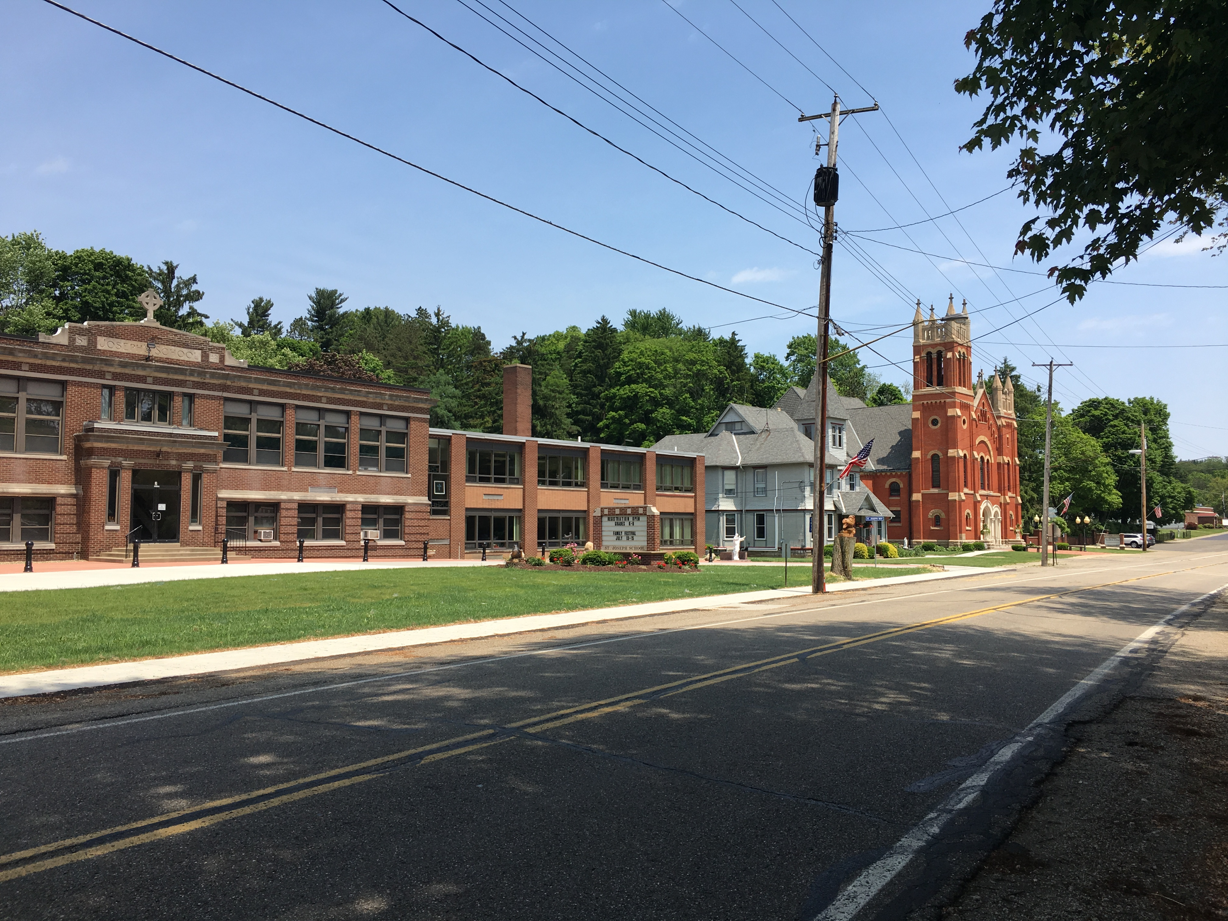 Three main buildings of the St. Joseph Parish, from left: St. Joseph School, St. Joseph rectory, and St. Joseph Church, along Waterloo Road in St. Joseph, Ohio.